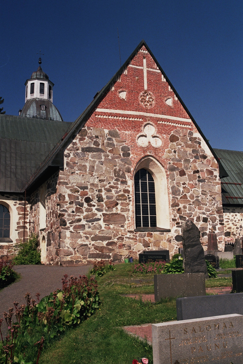 The church of Huittinen in Finland. The oldest part of the building was probably built in around 1495.